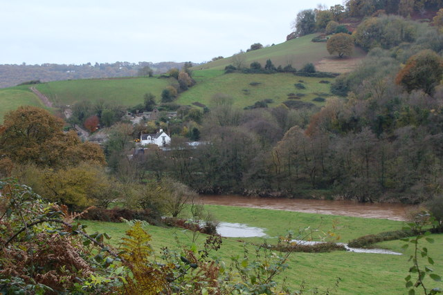 Farm in the valley, Whitebrook.